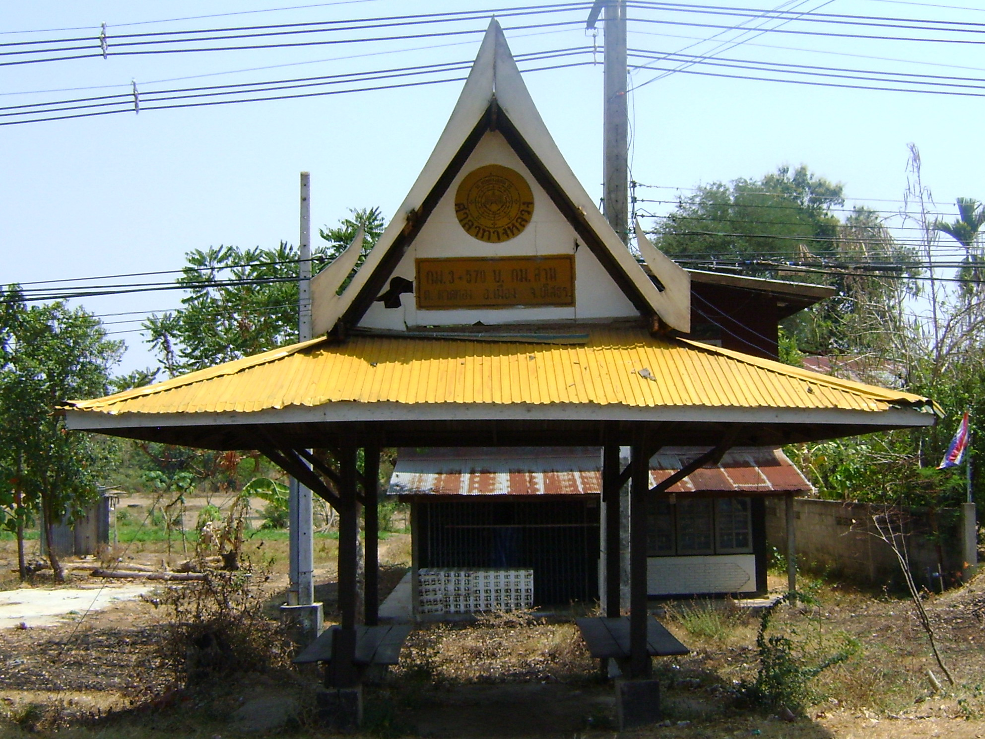 Sala Rim Thanon at KM.3+570 Ban Kilosam Tambon Tadthong Amphoe Meuang Changwat Yasothon